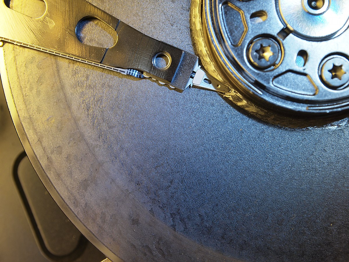 Hard disk head crash with damaged platters.